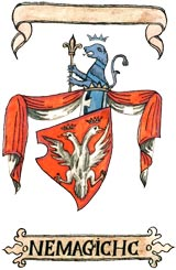 Nemanjici